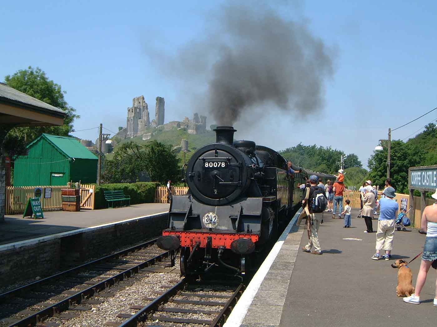 Steam Train, Corfe Castle Station